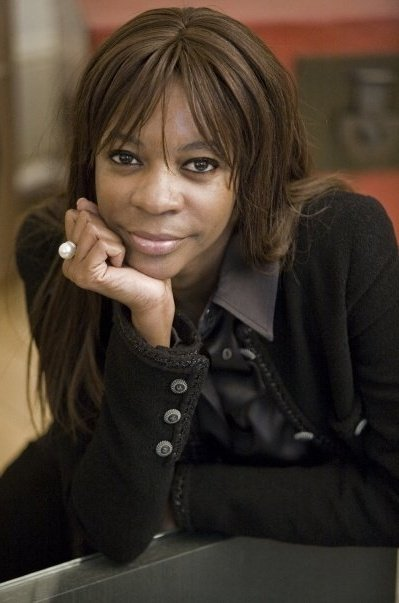 Dambisa Moyo, Zambian economist and writer.